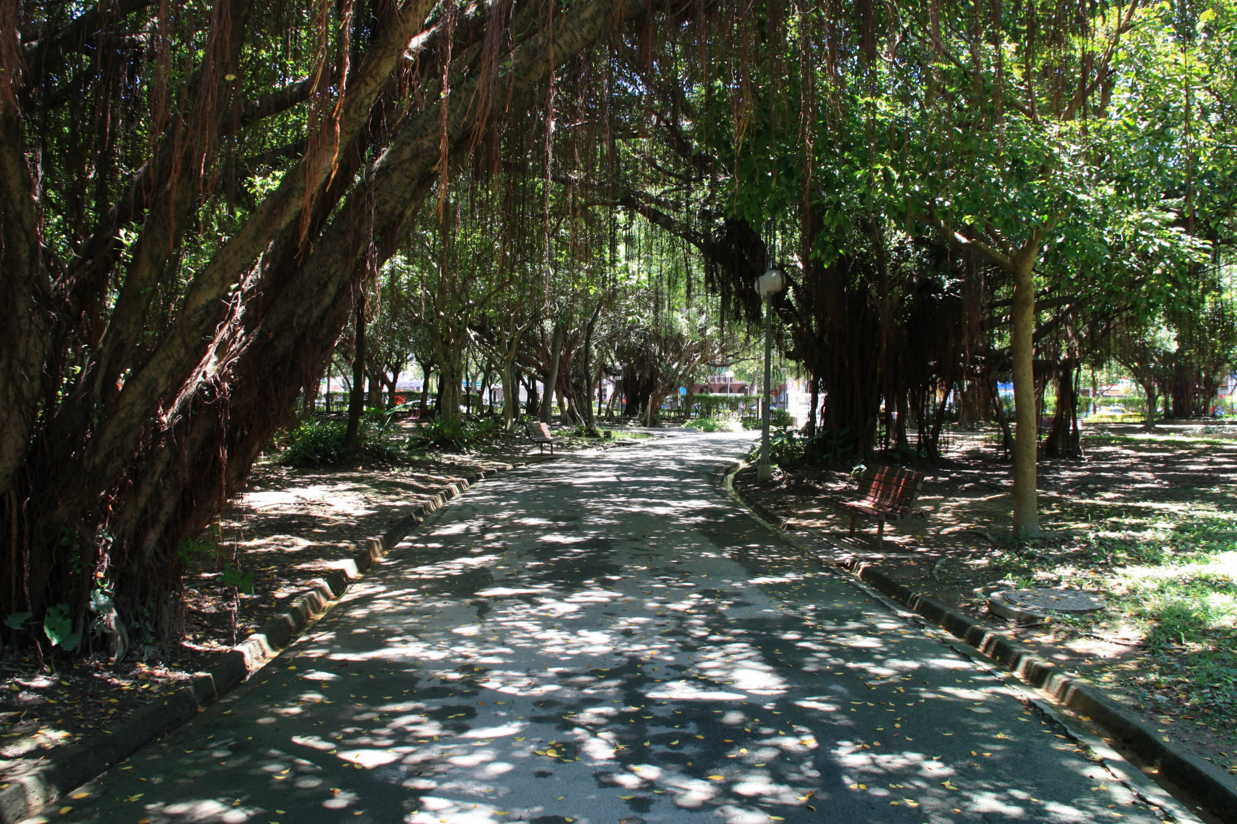 Táiběi Da-an District DàĀn Forest Park View to HéPíng East Rd